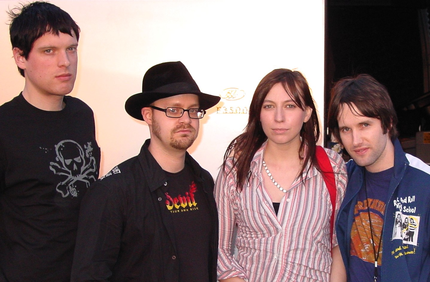 Ash - Mark, Rick, Charlotte, Tim in Tempe, Arizona, USA